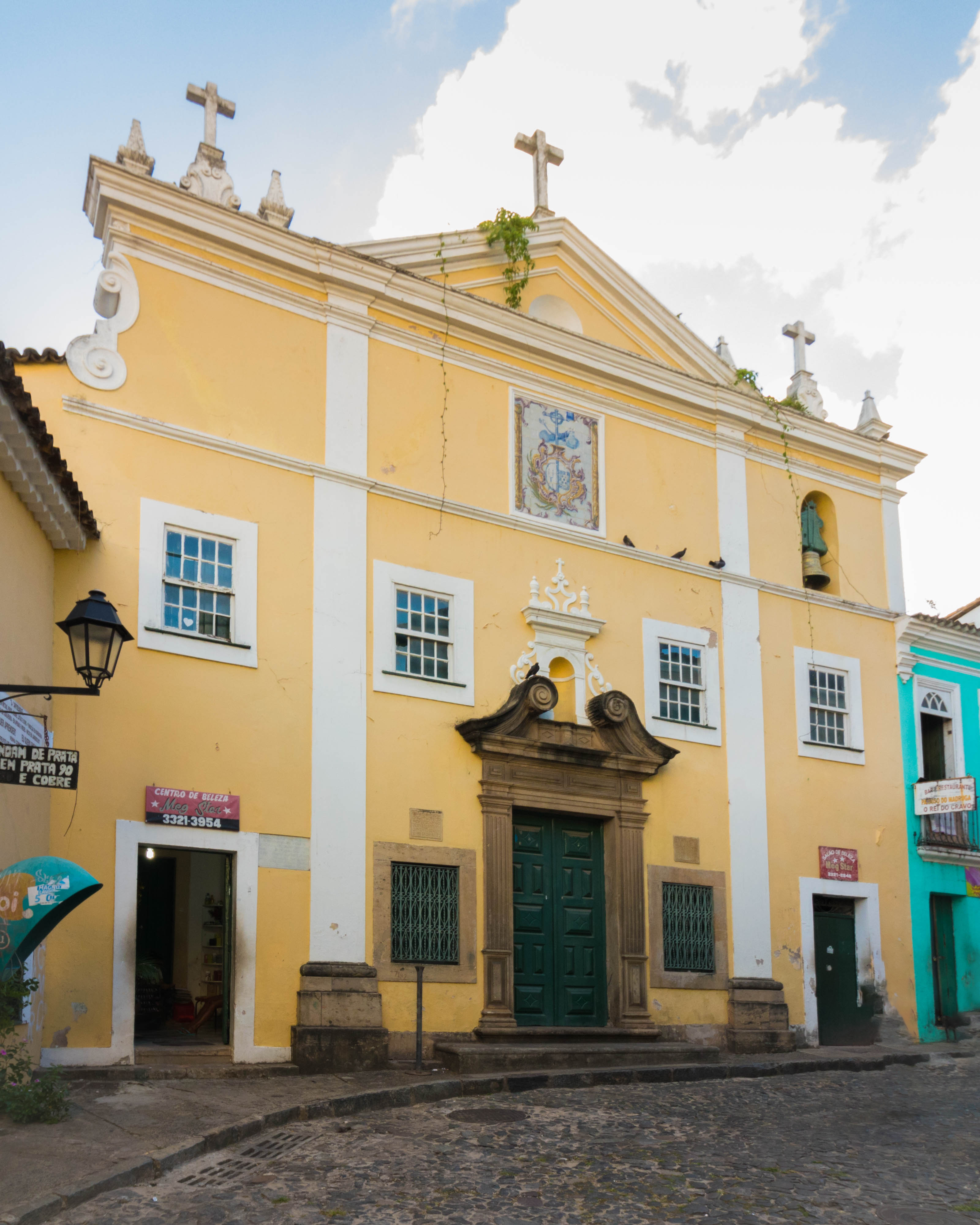 Igreja de São Miguel (Church of Saint Michael), Pelourinho, Salvador, Bahia, Brazil.